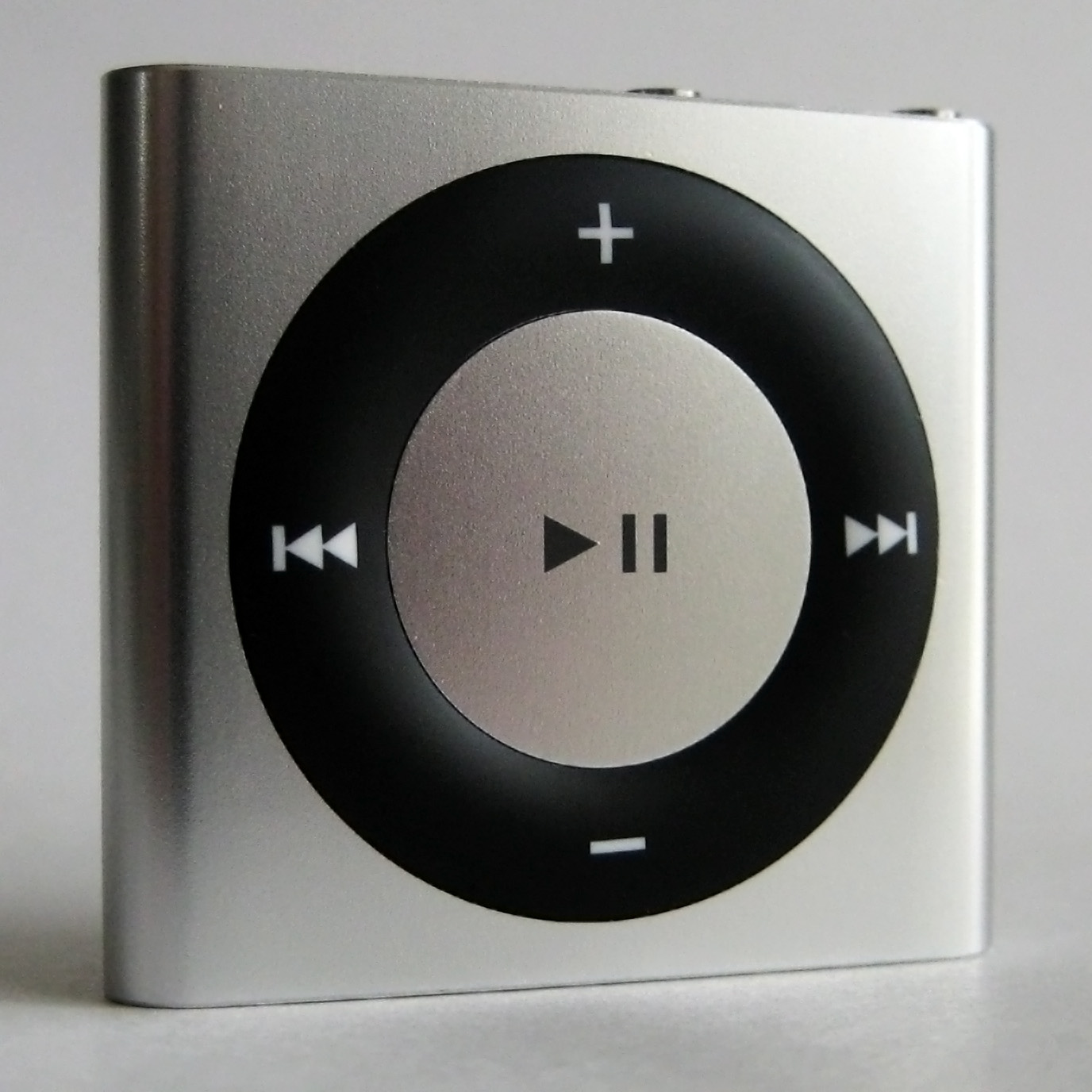 iPod shuffle 4G